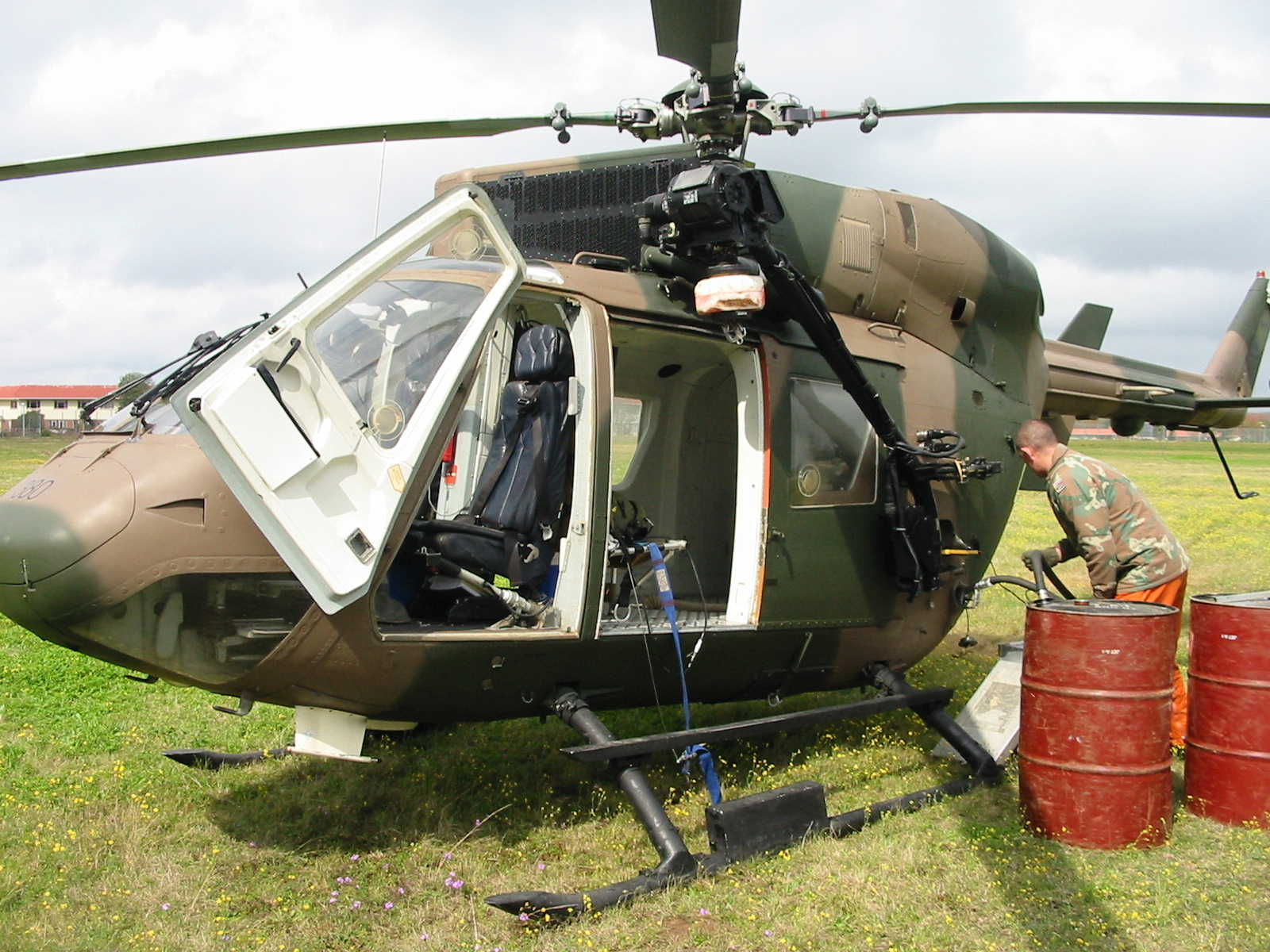 South African National Defense Force Annual Game Census This is an image of "African people at work" from South Africa